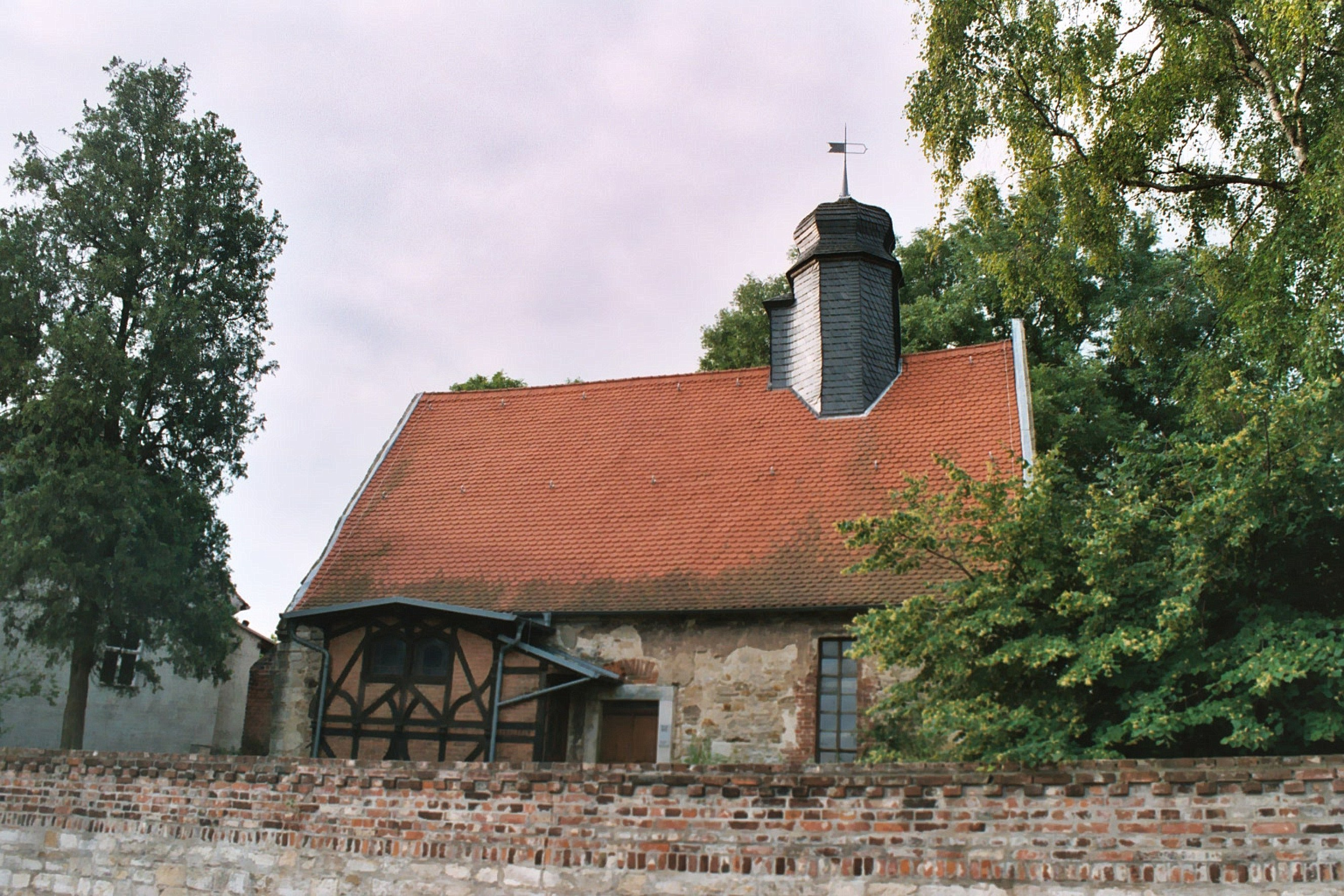 Gerstewitz (Zorbau), the village church